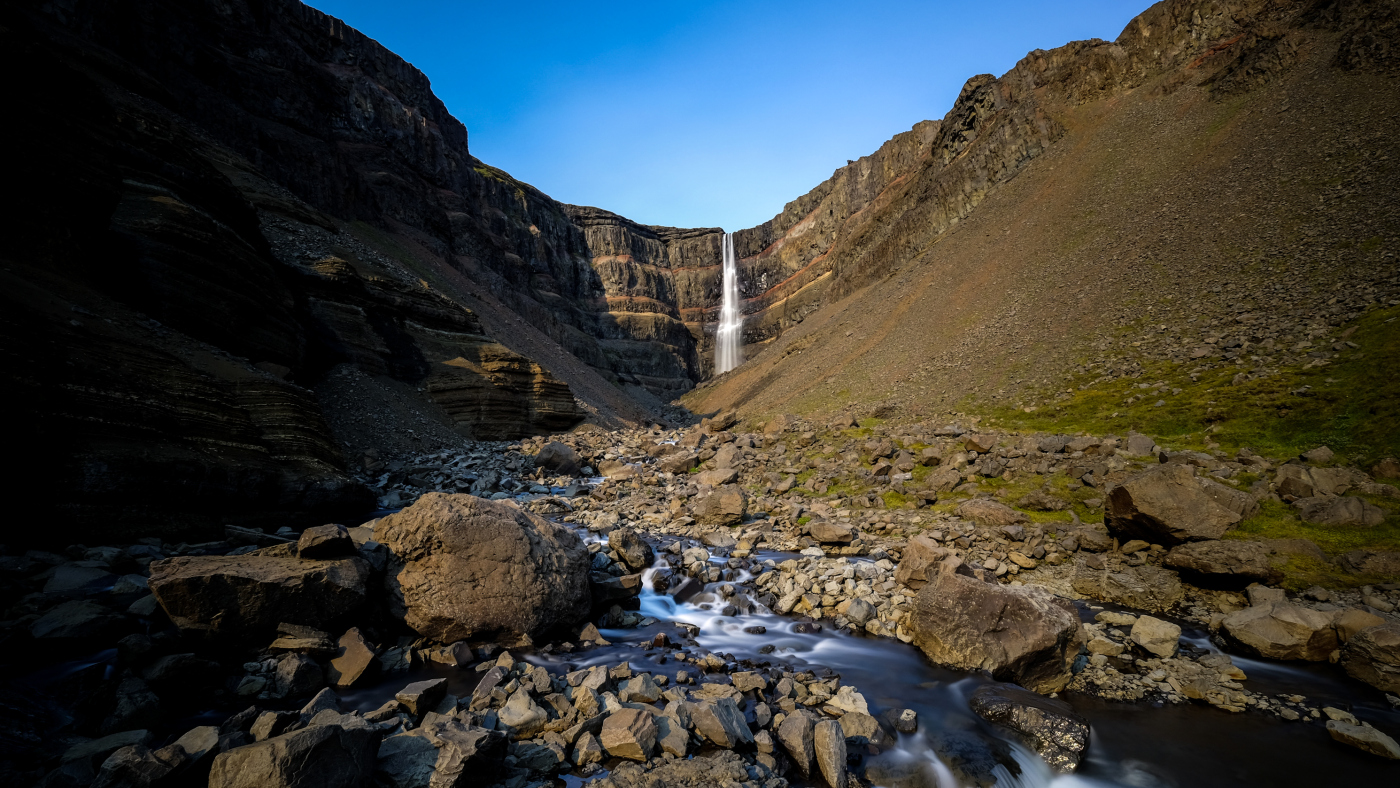 The third highest waterfall in Iceland with a height of 128 meters.